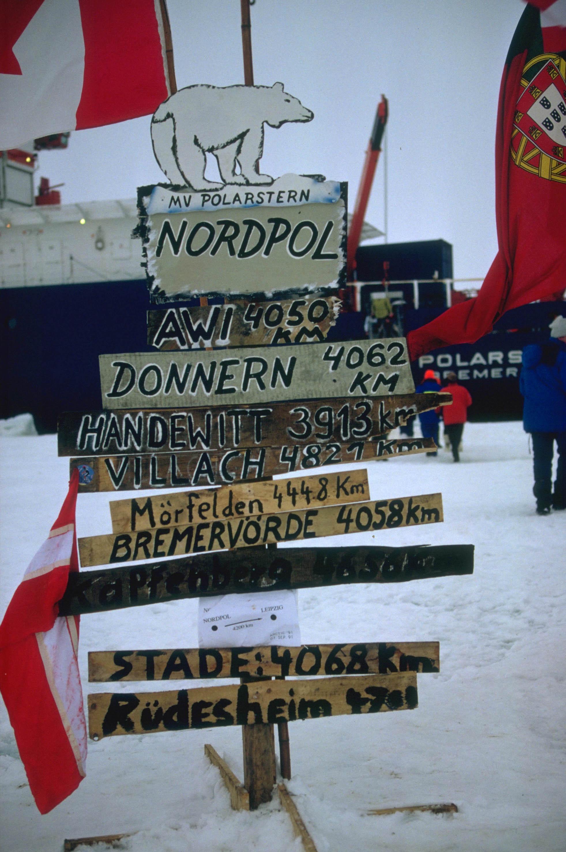 Northpole-sign, setup by the crew and scientists of the German research vessel POLARSTERN during her visit at the North Pole on 6.th Sept. 1991